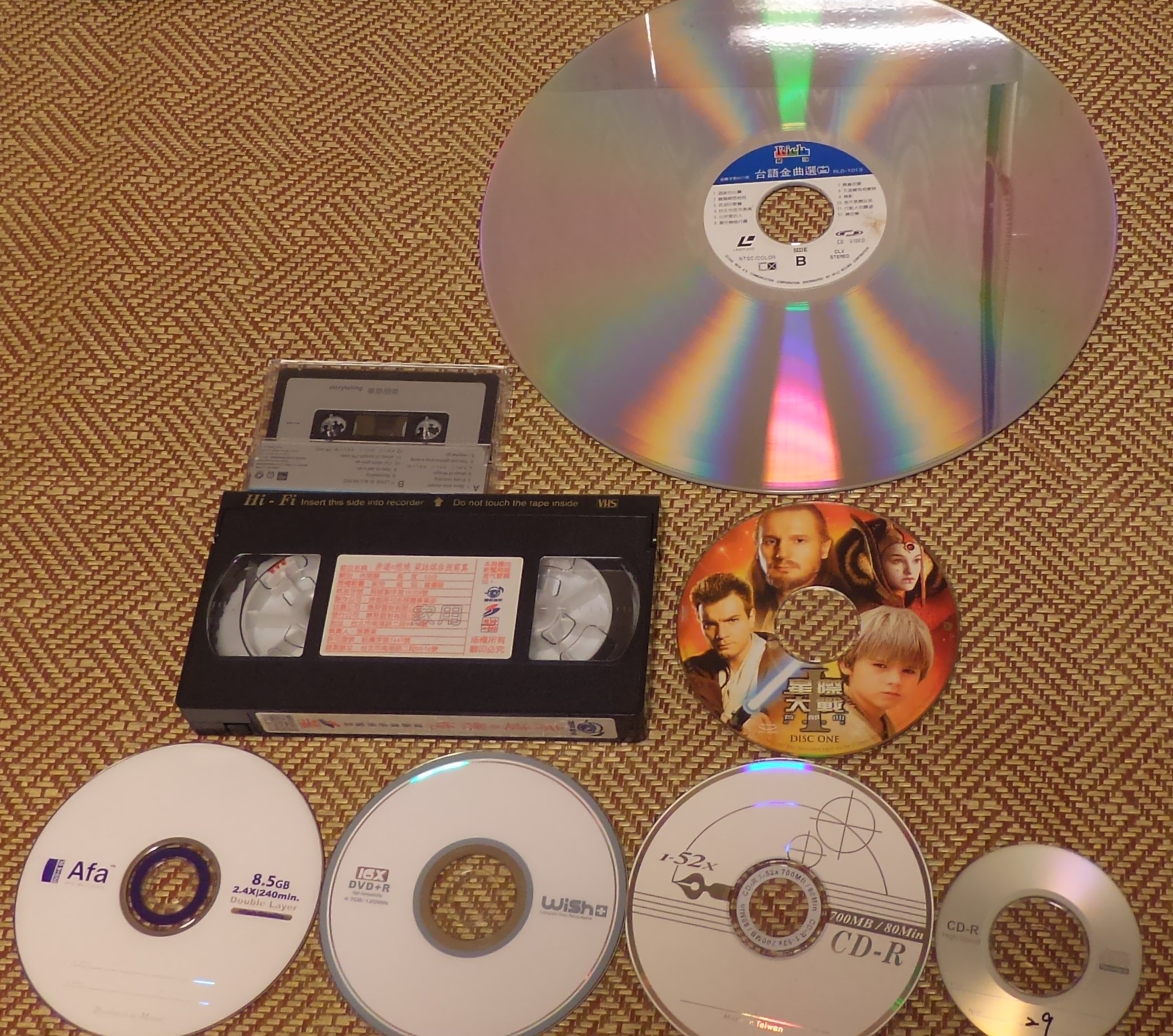 This picture showing the tape developed to discs. From now on, discs techniques better than older. Since mini cd, cd, vcd, dvd, bd and etc. It seems to be a truly thing which retired like Floppy Disk or Gramophone Record are not be exist anymore.